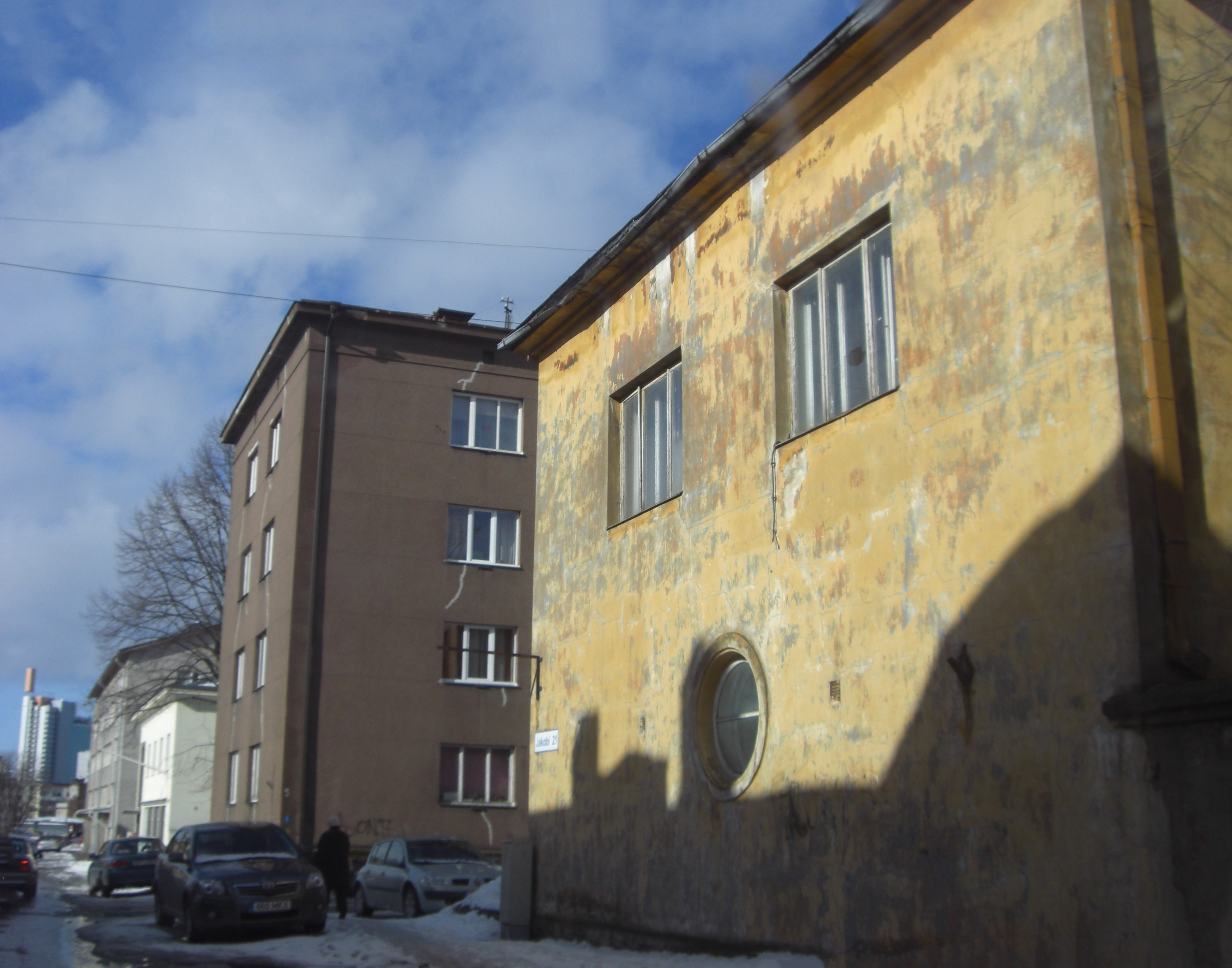 Jakobi 21, Keldrimäe, Tallinn, Estonia